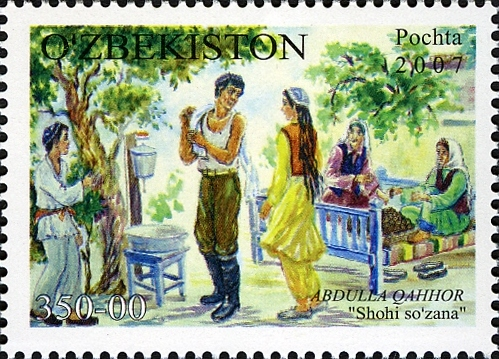 Stamps of Uzbekistan, 2007